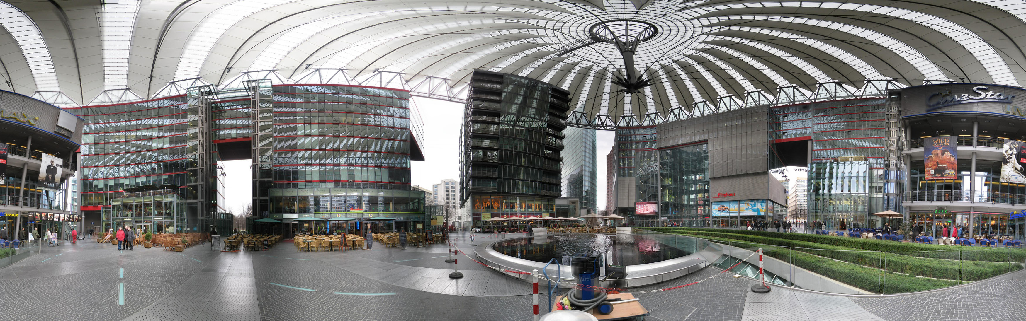 360 degree panorama picture of the center courtyard of the Sony Center at the Potsdamer Platz in Berlin. This picture was calculated from 126 individual photos using autostitch (